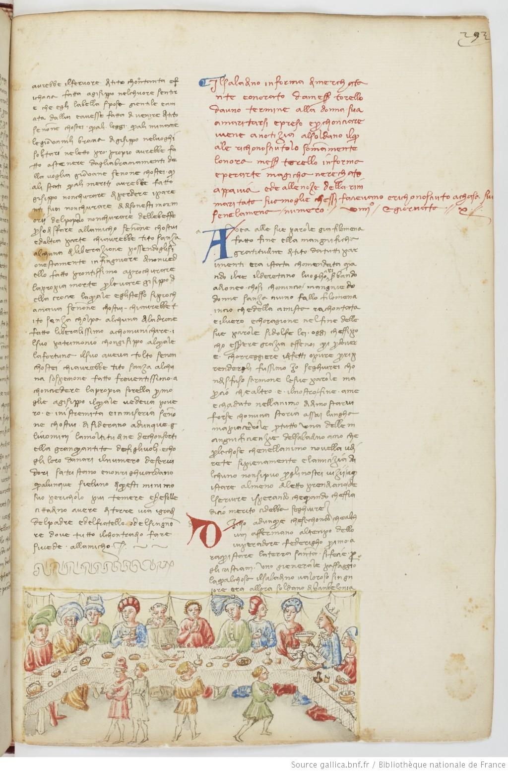 BNF MS Italien 63, fol. 294r: Boccaccio, Decameron: tale 10.9